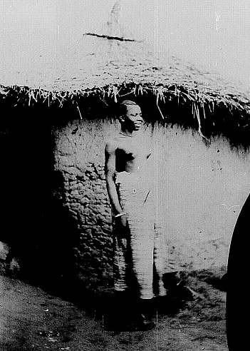 Khassonke girl (Sudan, 1882)